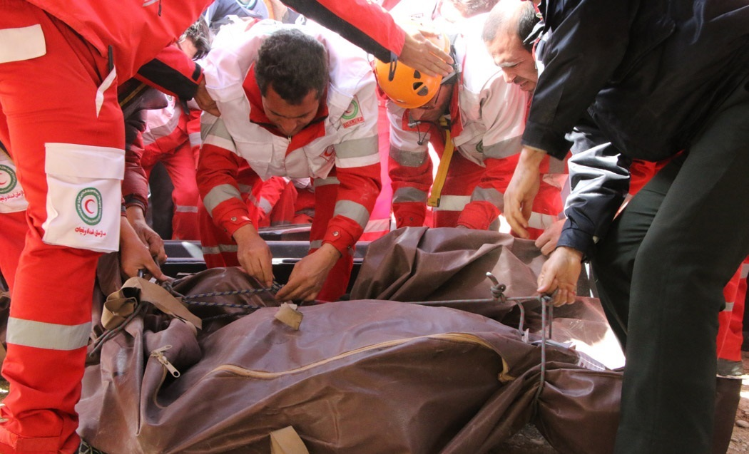 Search and rescue, 2018 Bombardier Challenger 604 crash (13961221000595636564568731681837 28415)